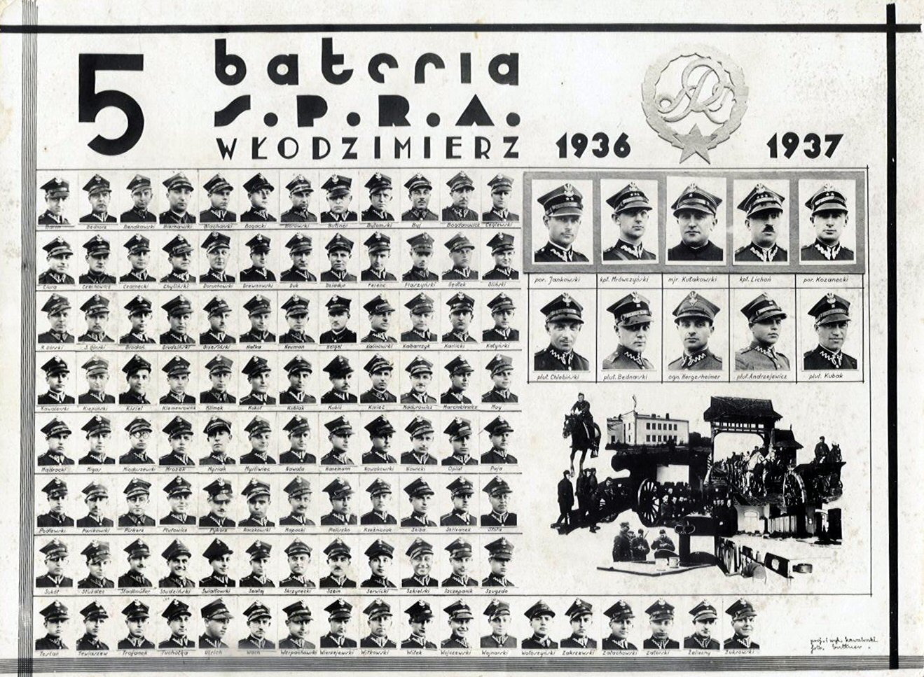 5. battery of 1936/37 Wlodzimierz Wolynski school of cadets of the Polish Army Artillery.